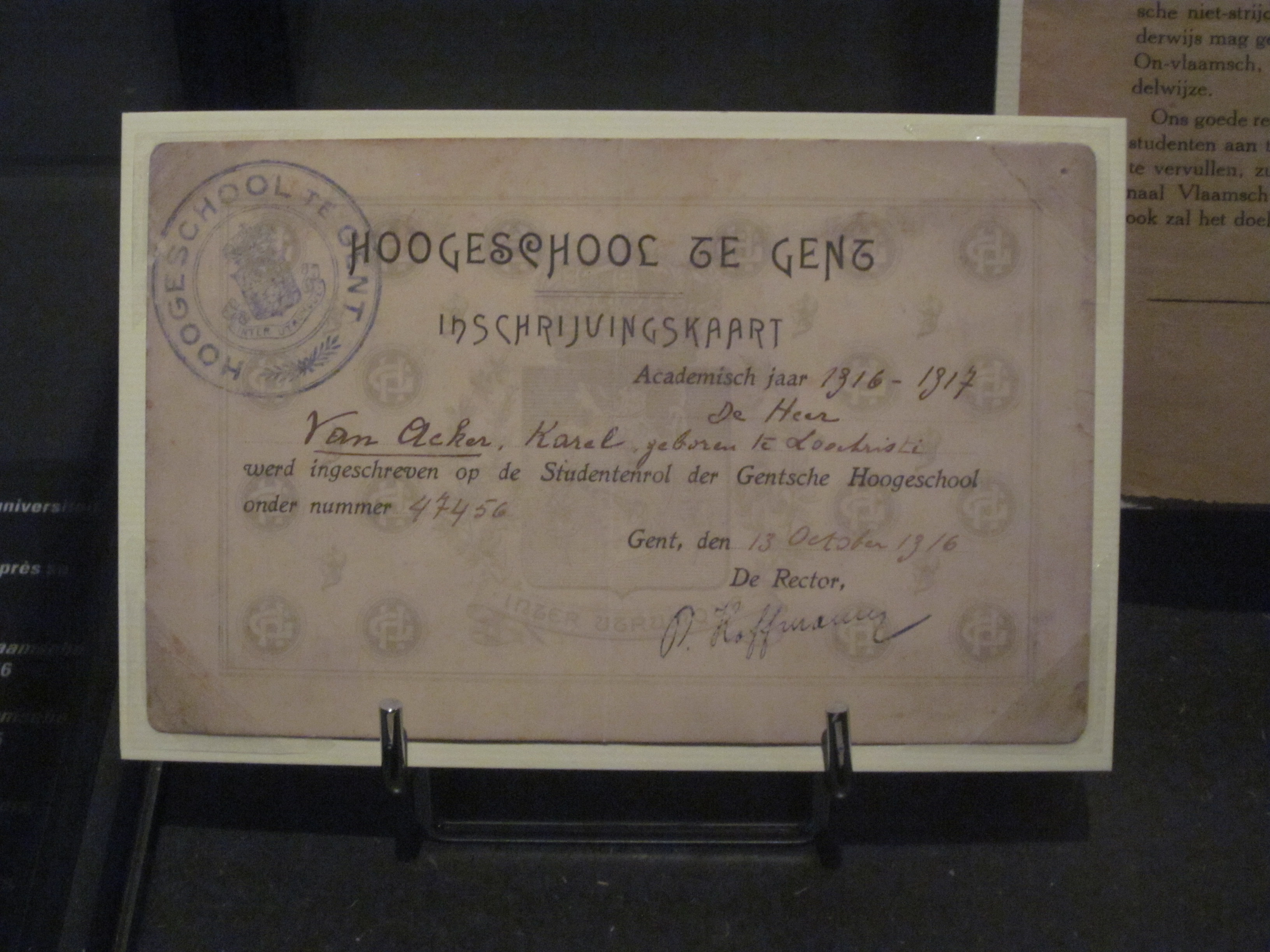 Certificate of inscription at Von Bissing University. From the Royal Museum of the Army and Military History, Brussels.